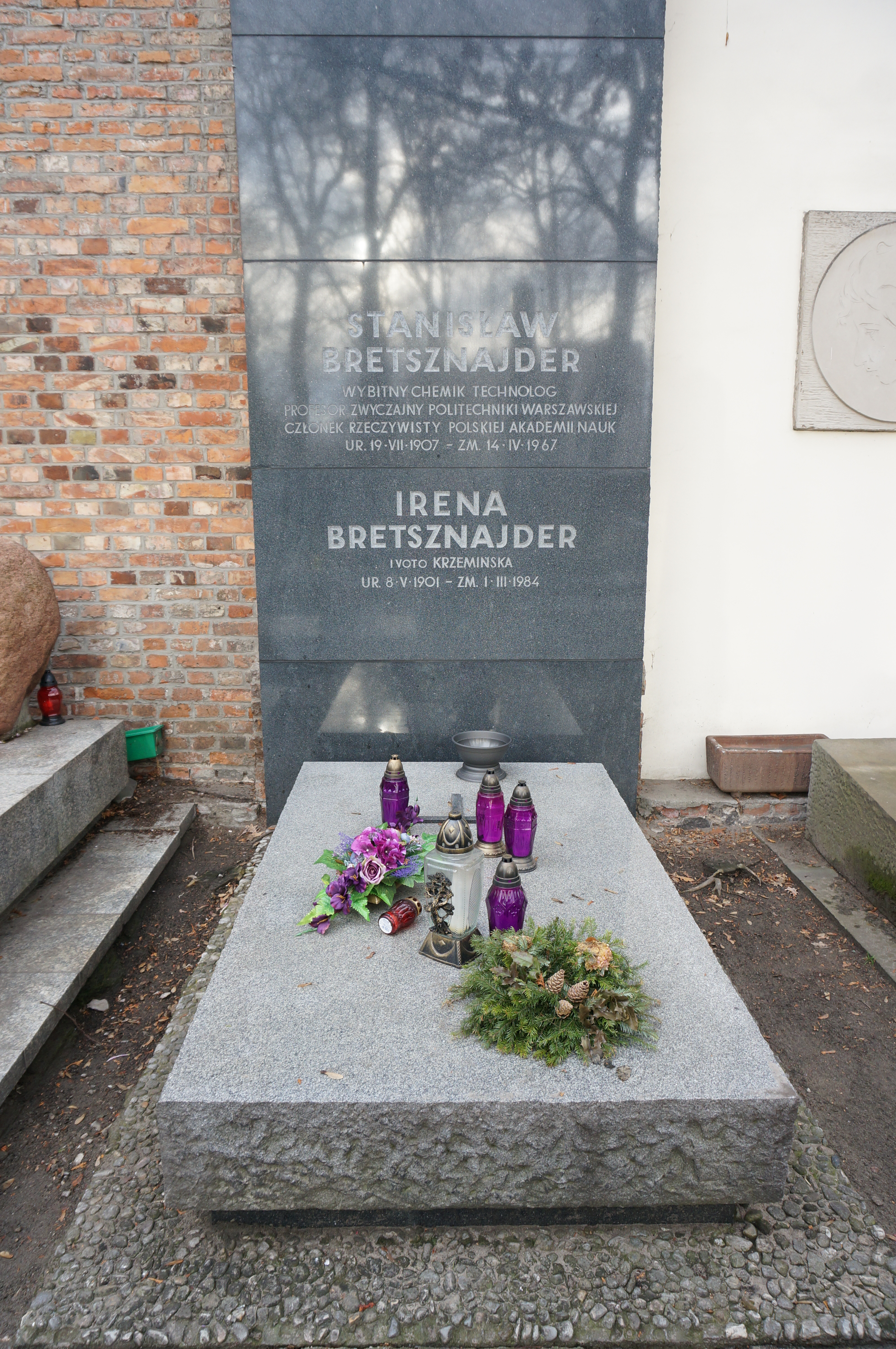 The grave of Stanisław Bretsznajder at the Powązki Cemetery (Avenue of Deserved, grave 73)